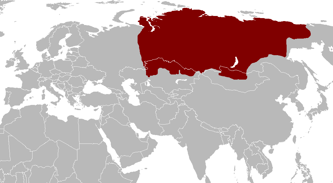 Ditribution map for the Siberian Sturgeon (Acipenser baeri), based on